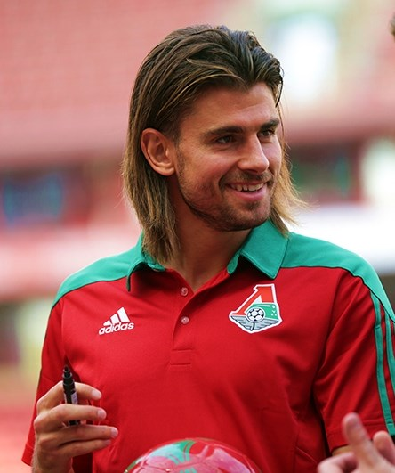 Nemanja Pejčinović 14 11